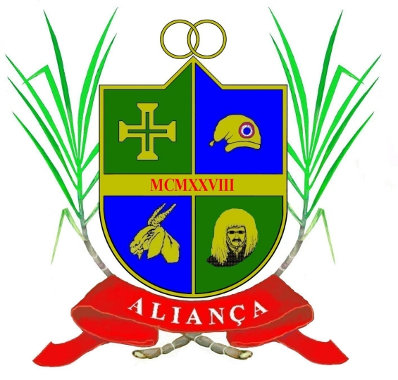 Coat of Arms of Aliança, Pernambuco state, Brazil